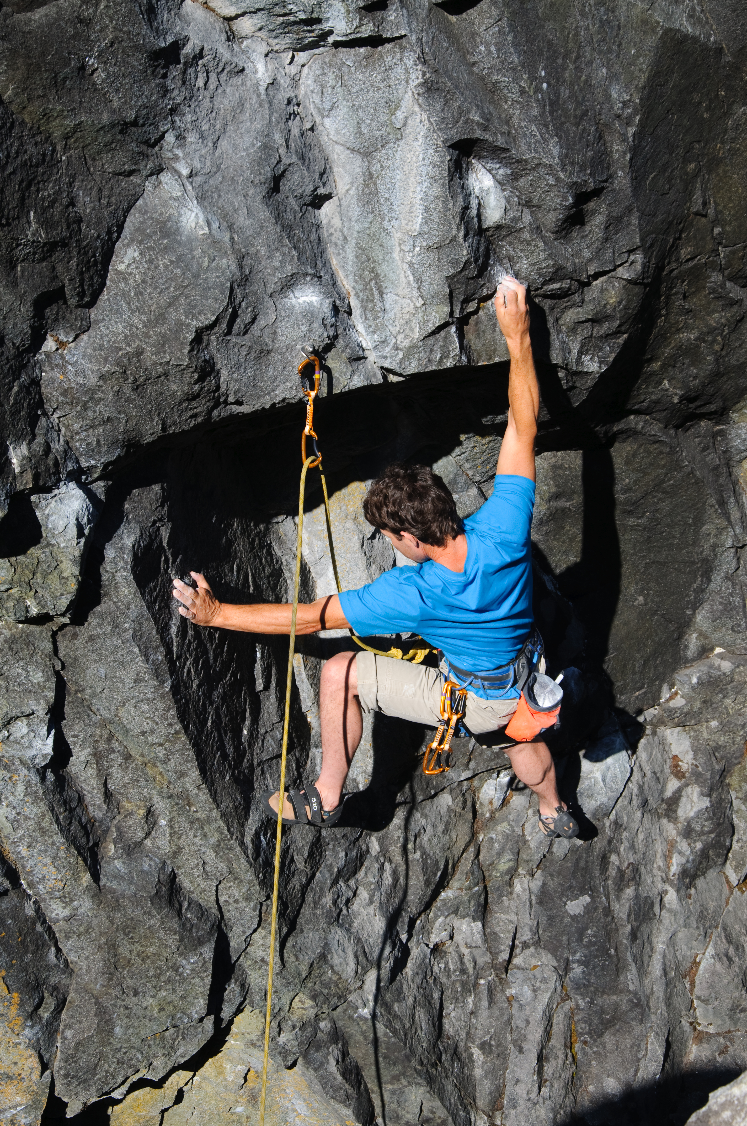 Climbing a small roof